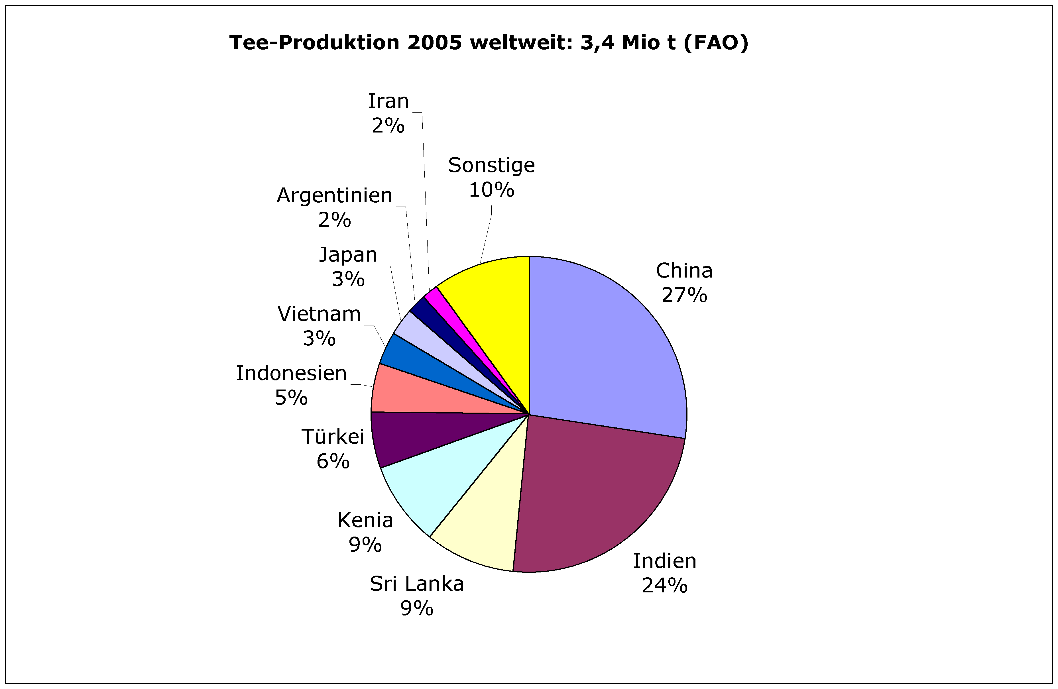 World tea production, 2005